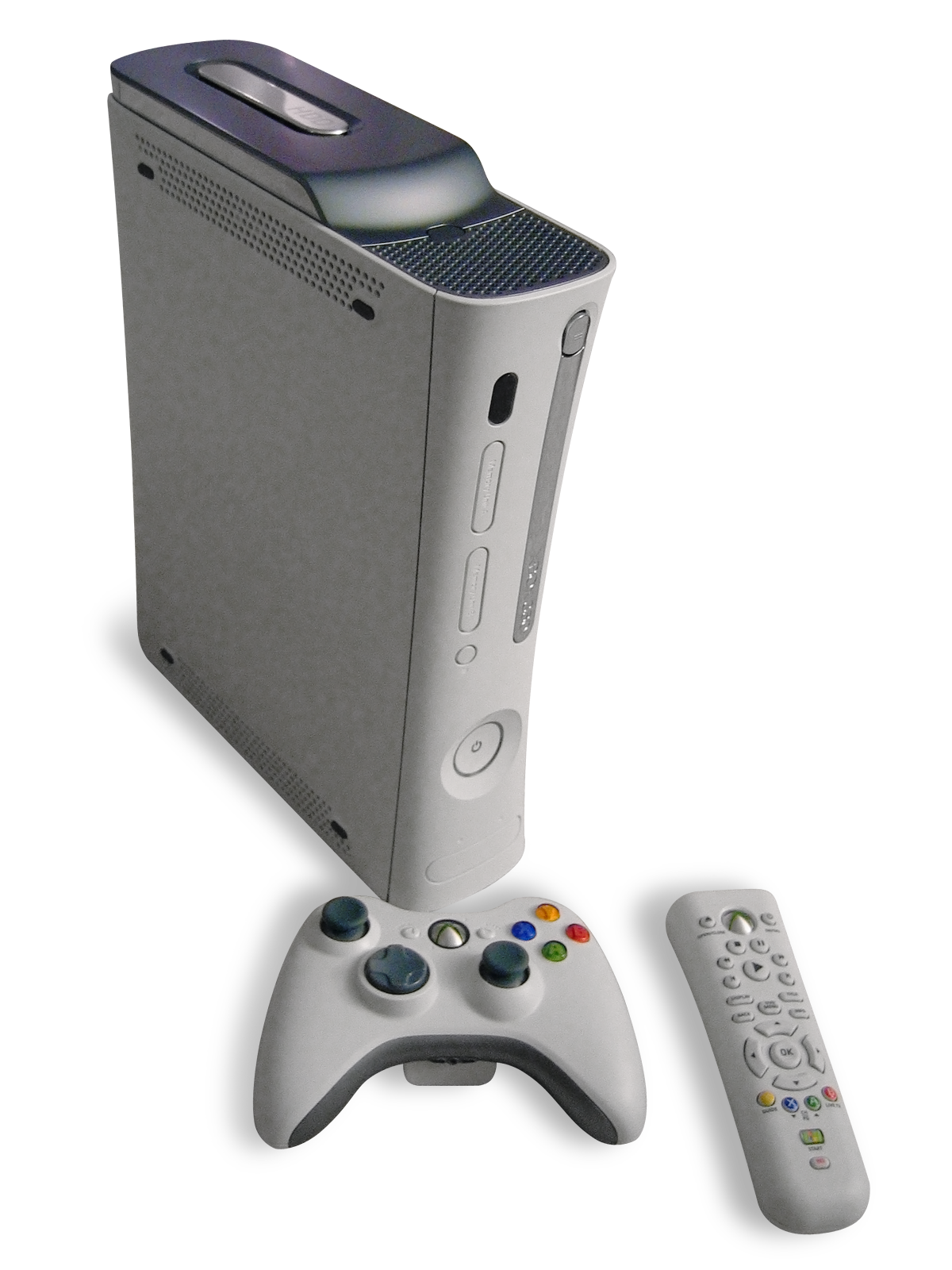 Apparently somebody thought that this Xbox was a good representative for all Xbox 360s: Joystiq used it too